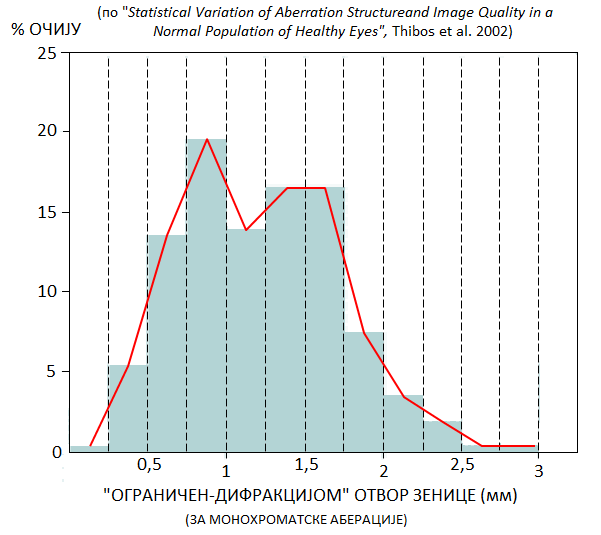 ОГРАНИЧЕН ДИФРАКЦИЈОМ ОТВОР ЗЕНИЦЕ